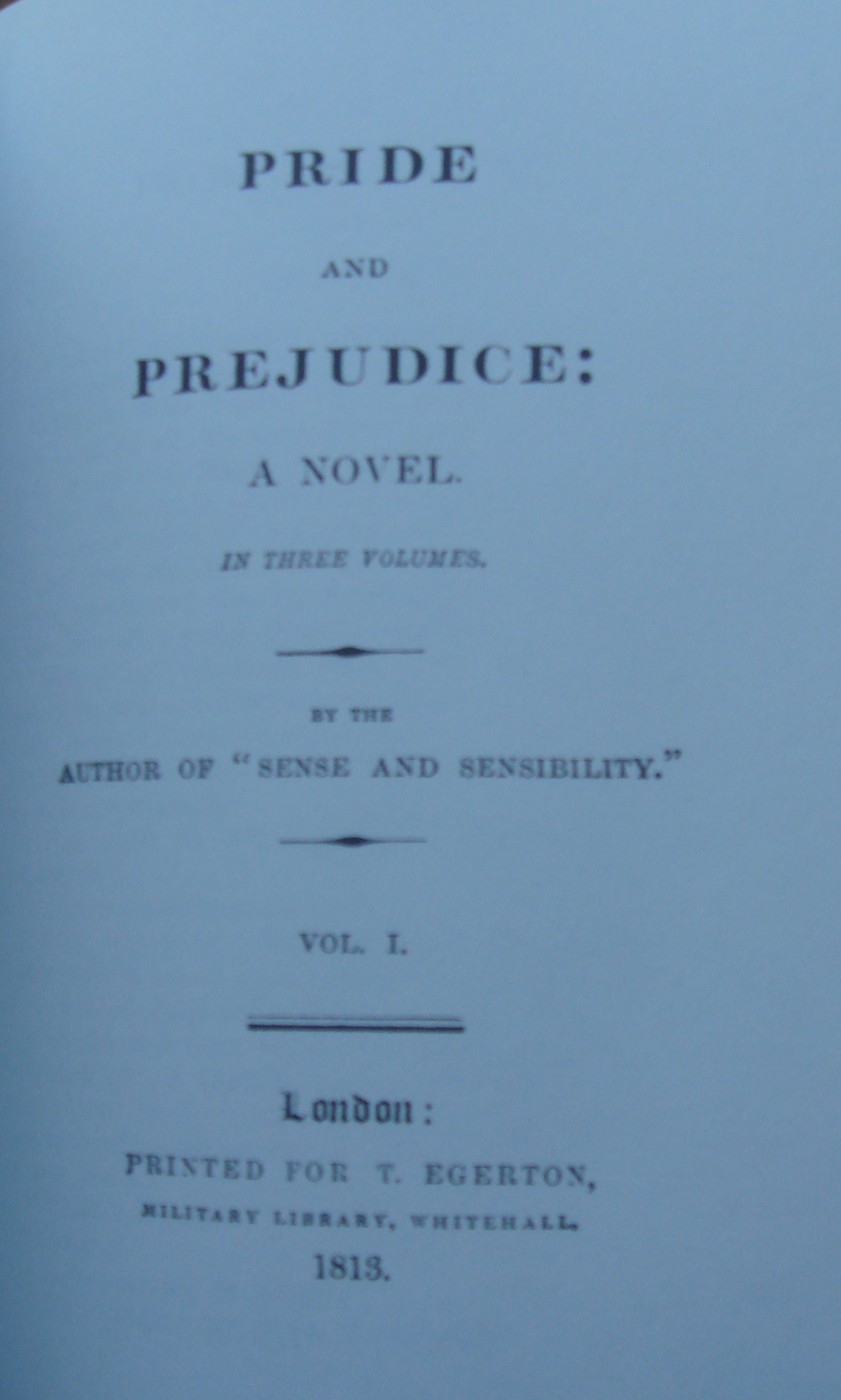 Title page of original edition of Pride and Prejudice (1813)